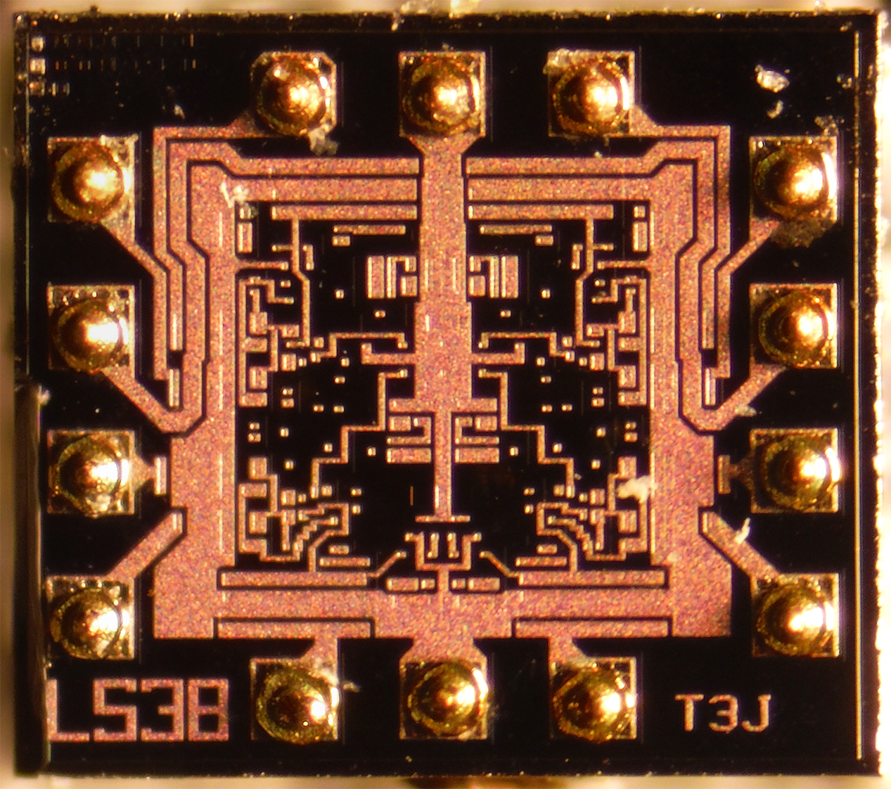 LS38 die. Quadruple 2-input positive-NAND buffers with open-collector outp